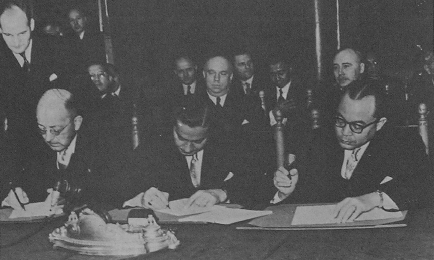 J.H. van Maaarseveen, Sultan Hamid II and Hatta signing the Dutch-Indonesian Round Table Agreement, 2 November 1949